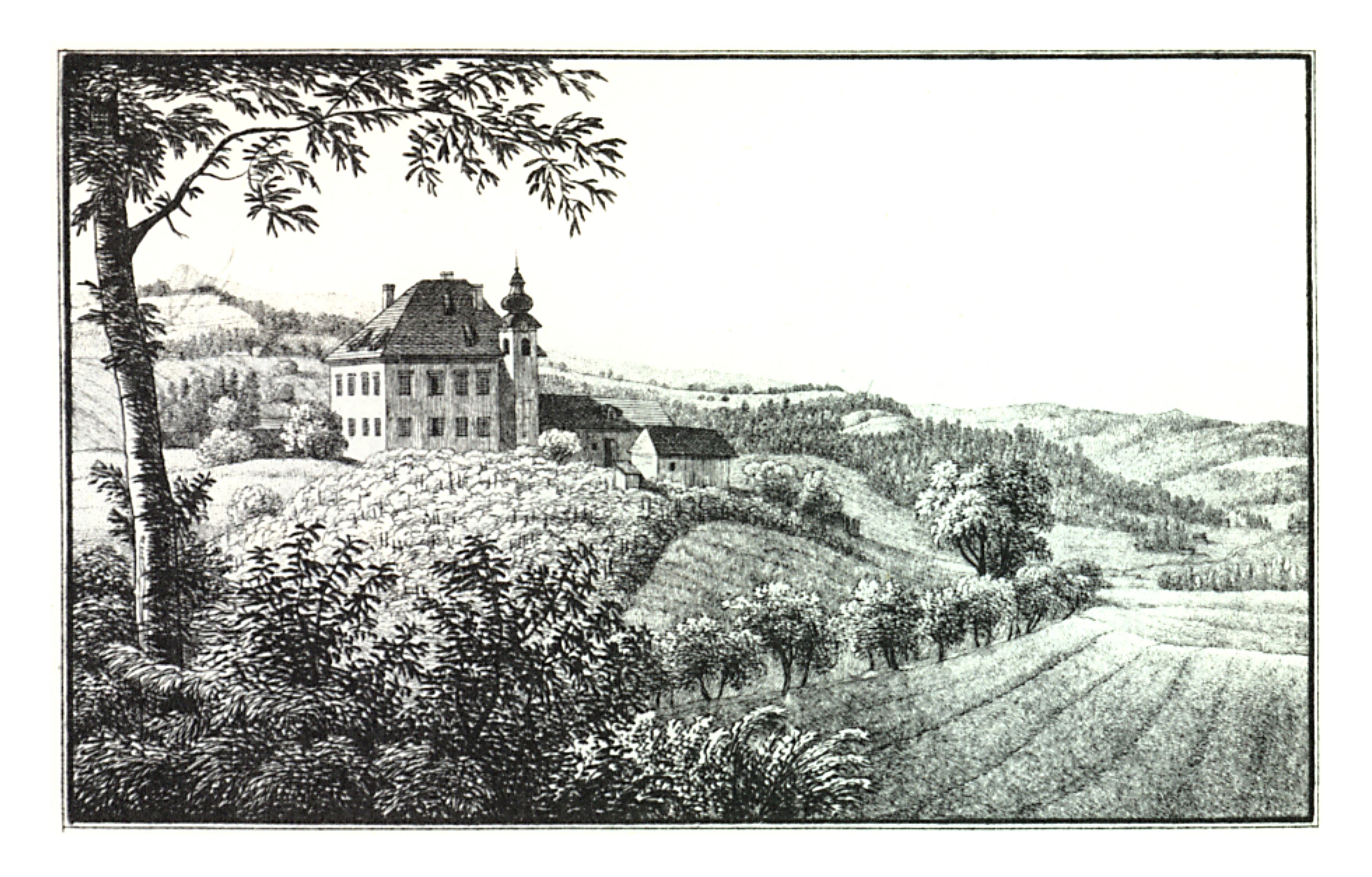 J. F. Kaiser - lithographirte Ansichten der Steyermärkischen Städte, Märkte und Schlösser, Graz 1824-1833 Joseph Franz Kaiser (1786–1859) Alternative names J. F. KaiserDescriptionAustrian printer and editorDate of birth/death 11 March 1786 19 September 1859Location of birth/death Graz (Styria) GrazAuthority control : Q1499963 VIAF: 30629353 ISNI: 0000 0000 3083 0153 LCCN: n87141671 GND: 129880159 NLP: A24960305 WorldCat creator QS:P170,Q1499963 . Scanprojekt Community Projektbudget 2012 This scan or this PDF-file was created within the GLAM-project Bookscanning, supported by Wikimedia Germany and Wikimedia Austria as a part of the community-project to capture books, documents and pictures which are not eligible to copyright or for which the copyright has expired. This document describes or depicts an object which is located in Austria today. Send requests for uncompressed scans to Hubertl. This work is in the public domain in its country of origin and other countries and areas where the copyright term is the author's life plus 100 years or less. You must also include a United States public domain tag to indicate why this work is in the public domain in the United States. This file has been identified as being free of known restrictions under copyright law, including all related and neighboring rights. } Object location47° 04′ 13.15″ N, 15° 29′ 45.43″ E